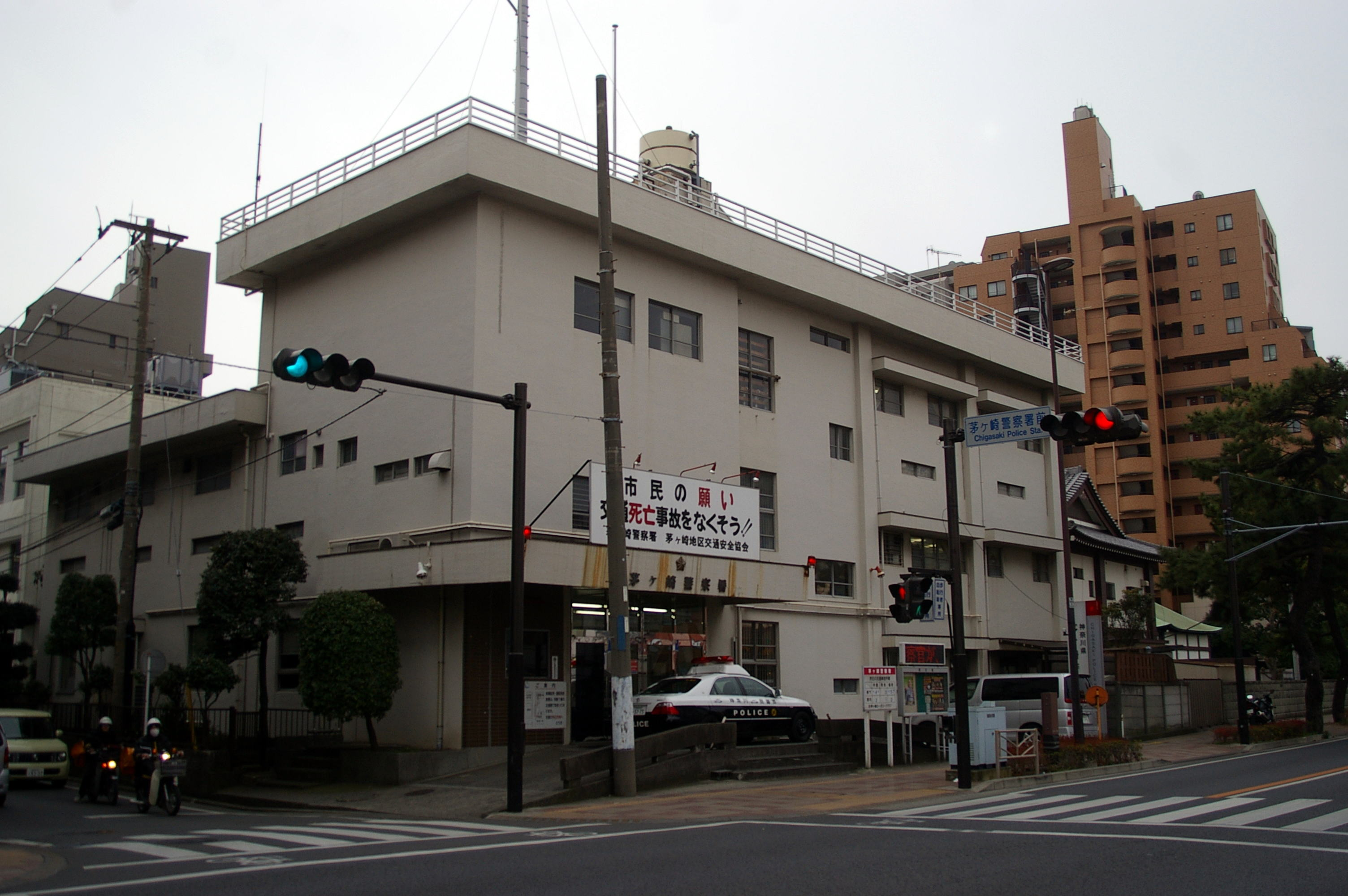 Chigasaki Police Station